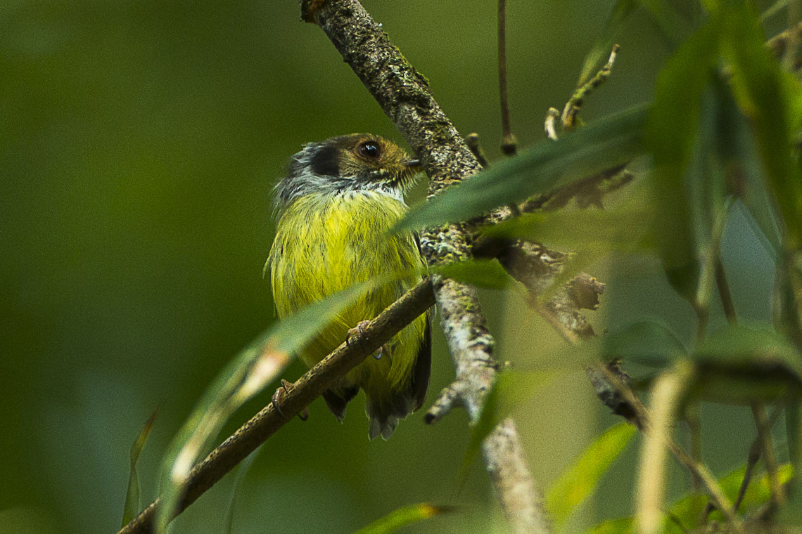 Eared Pygmy-Tyrant - Intervales - Brazil_S4E9991